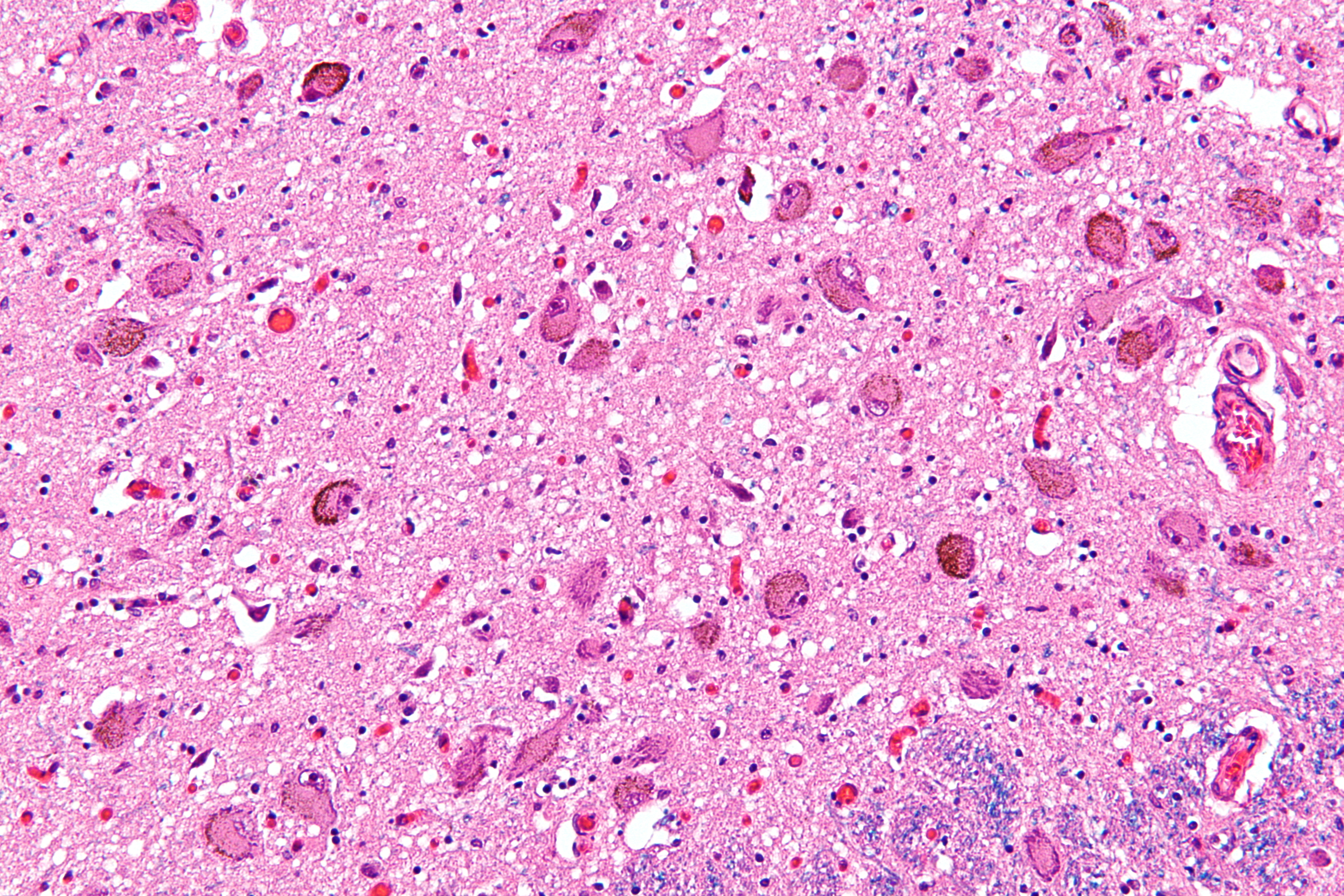 High magnification micrograph of the locus ceruleus, also spelled locus coeruleus, a nucleus found in the rostral pons in the lateral floor of the fourth ventricle. It literally means blue spot, based on its gross appearance. It is a center of norepinephrine (noradrenaline) production. Related images Very low mag. Low mag. Intermed. mag. High mag. Very high mag.